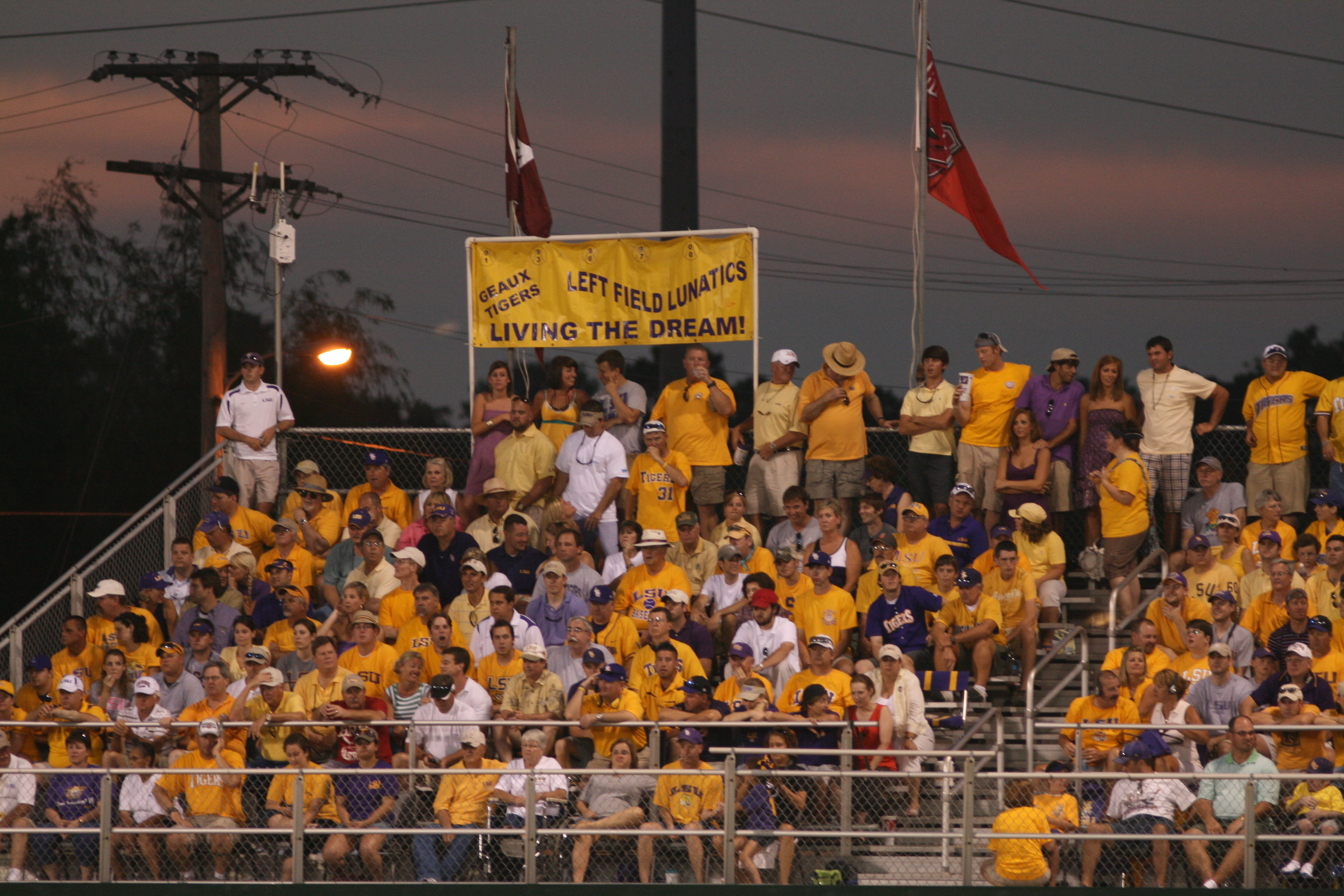 Baton Rouge Regionals '08